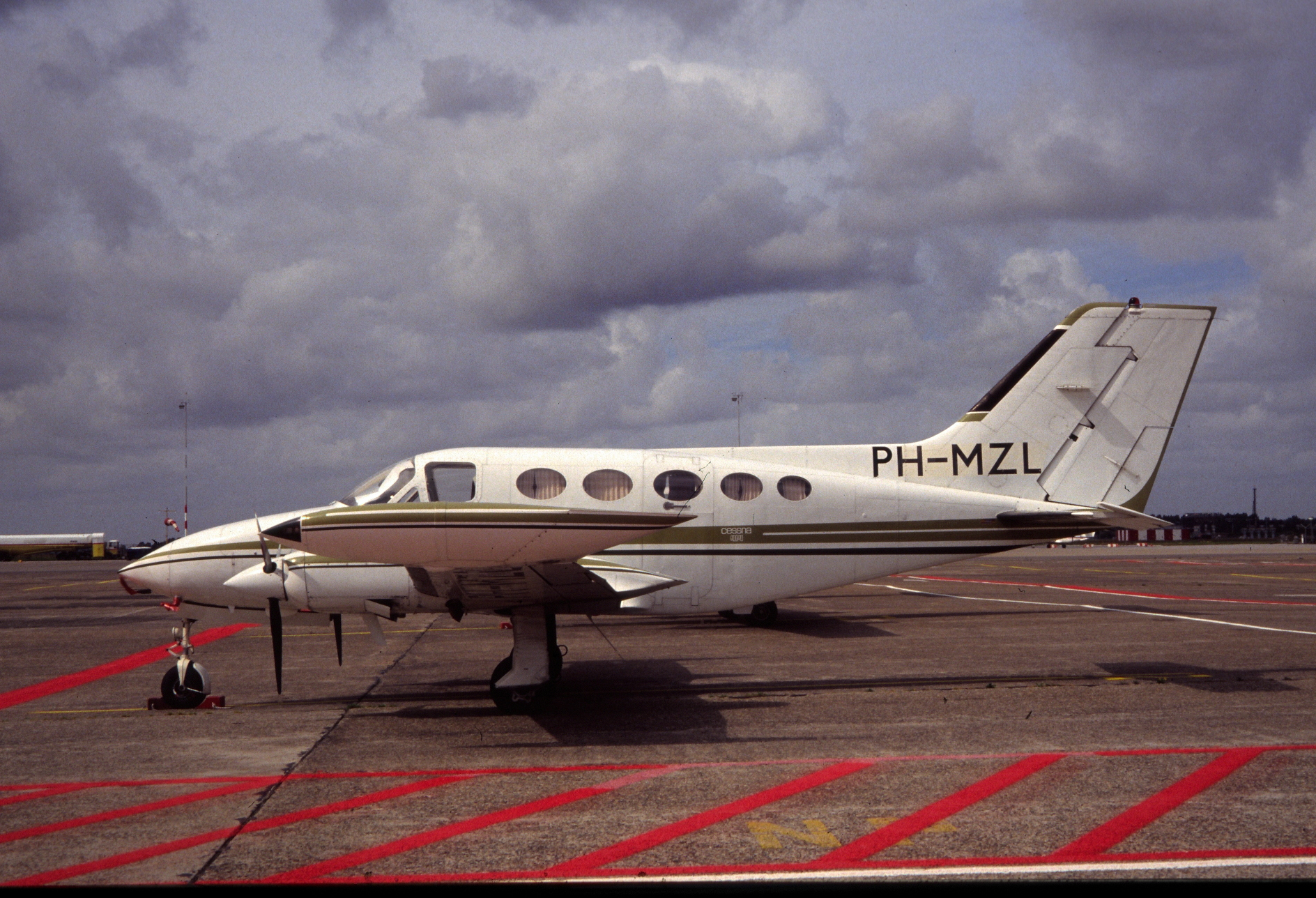 Photo by Harro Ranter, Cessna 414 at Amsterdam-Schiphol Airport (EHAM), August 20, 1990.